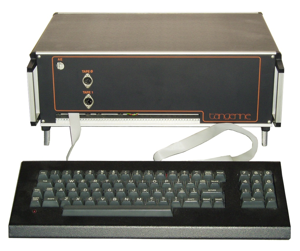 A Tangerine Microtan 65 system in the full System Rack. Picture of my own Microtan 65 system taken by me Ian Dunster 14:33, 30 September 2006 (UTC)